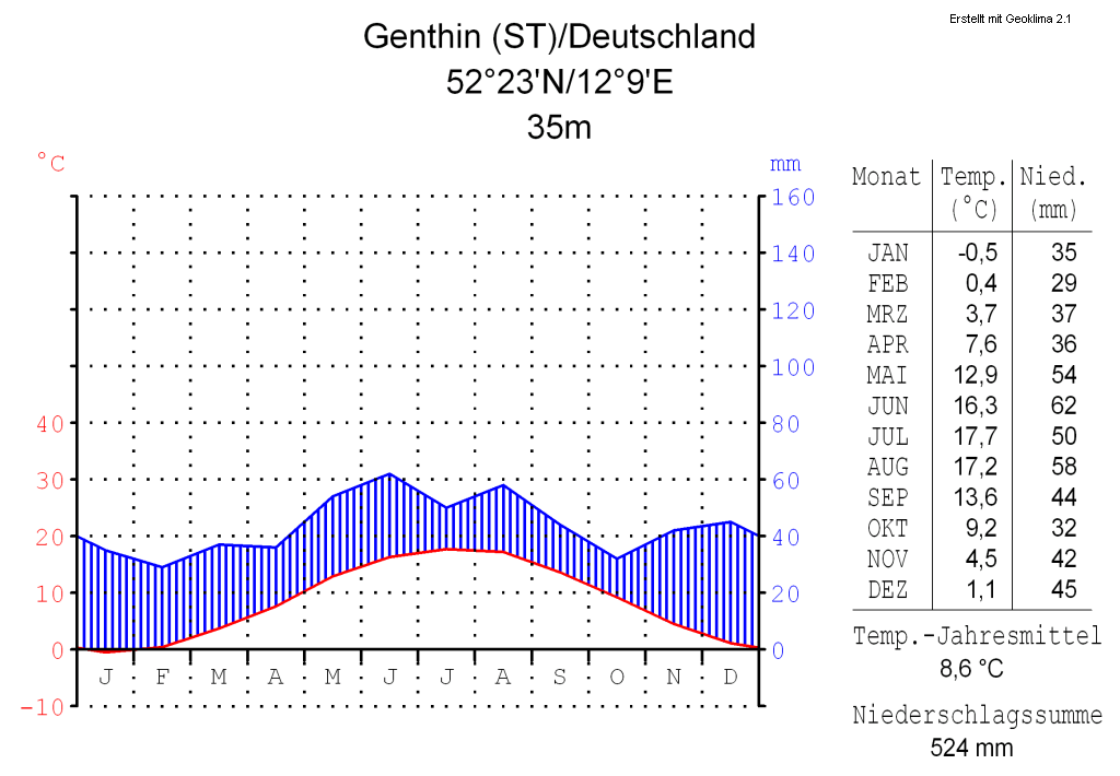 climate chart in the format by Walter and Lieth, metric, °Celsisus and millimeters, made with Geoklima 2.1